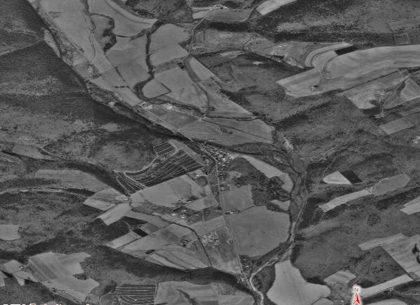 Bird's-eye view of Stillwater, Pennsylvania